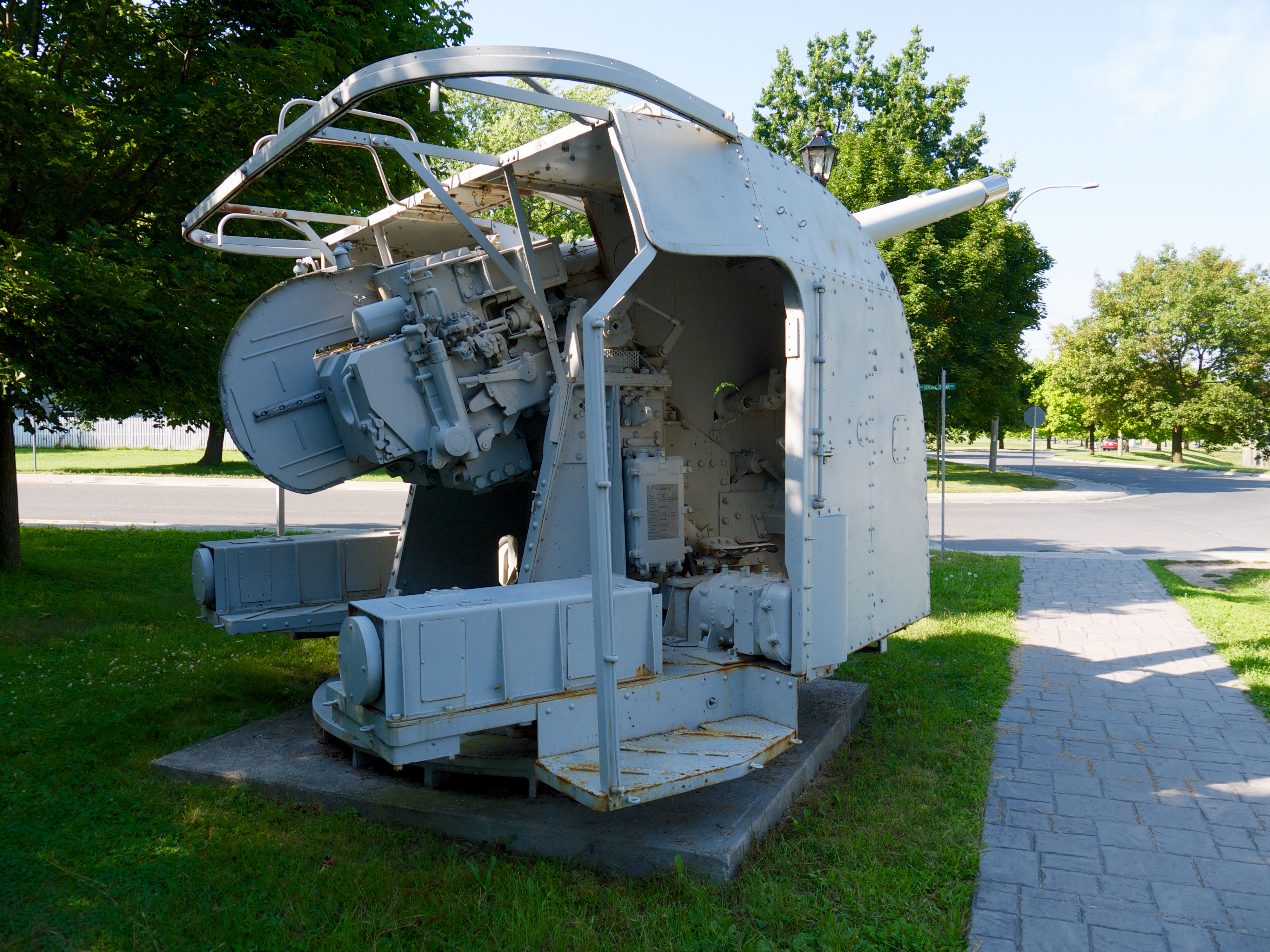 Twin QF 4 inch Mk XVI naval guns in Mk. XIX HA mounting, from Canadian destroyer HMCS Huron. Displayed on the grounds of the Royal Military College in Kingston, Ontario.